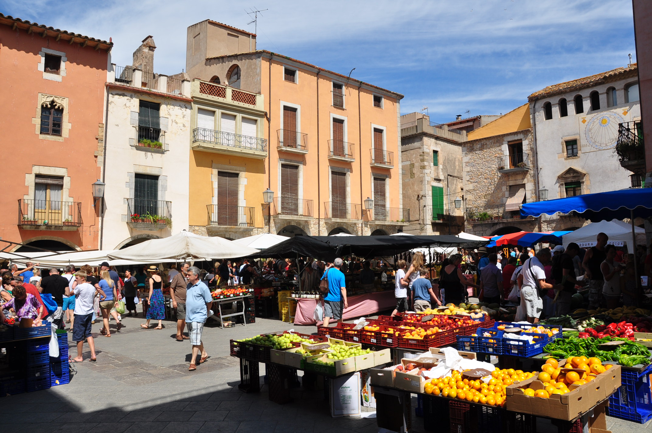 Weekly market on the Main Square (Plaça de la Vila) of Torroella de Montrgí (County of Baix Empordà, Catalonia, Spain).